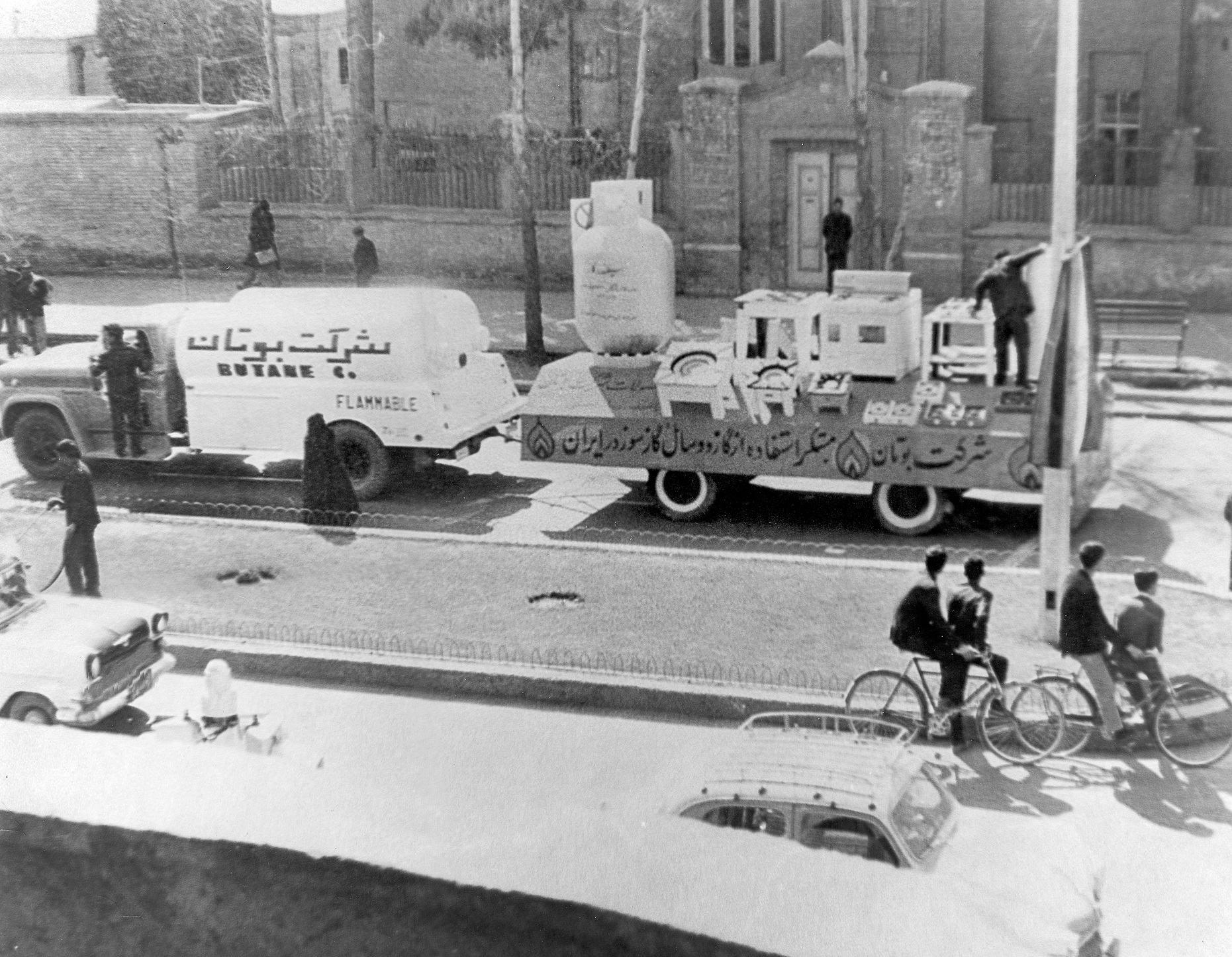 Butane Industrial Group Products